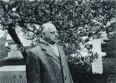 Alexander Ostrowski in Washington